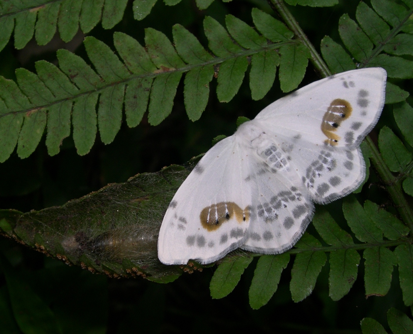 Auzata superba superba (Butler, 1878)(Drepanidae: Drepaninae) Wingspan: about 40 mm Loc: Yokohama, Honshu, Japan. June 7 2006. Distribution: Japan（Hokkaido, Honshu, Shikoku, Kyushu, Tsushima), Korean Peninsula and Siberia. Host Plants: Cornaceae-Dog woods (Cornus (or Swida) controversa, Cornus (or Swida) macrophylla). ja: ヒトツメカギバ（カギバガ科：カギバガ亜科） 開張約40mm 横浜市にて撮影。 分布：日本（北海道～九州、対馬）、朝鮮半島、シベリア 成虫出現期：6～10月 幼虫： ミズキ科（ミズキ、クマノミズキ）